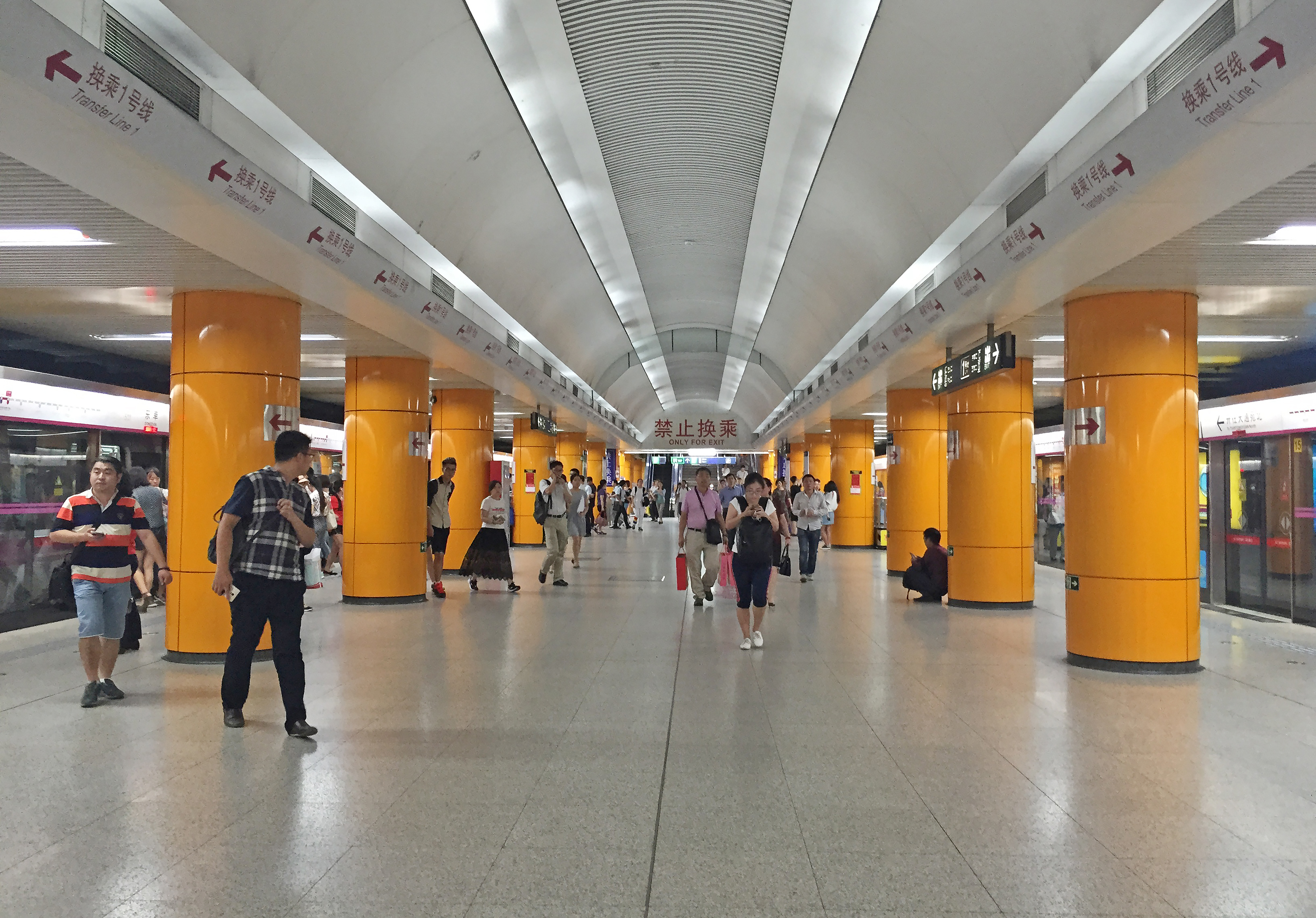 The station on Line 5 is more vivid...